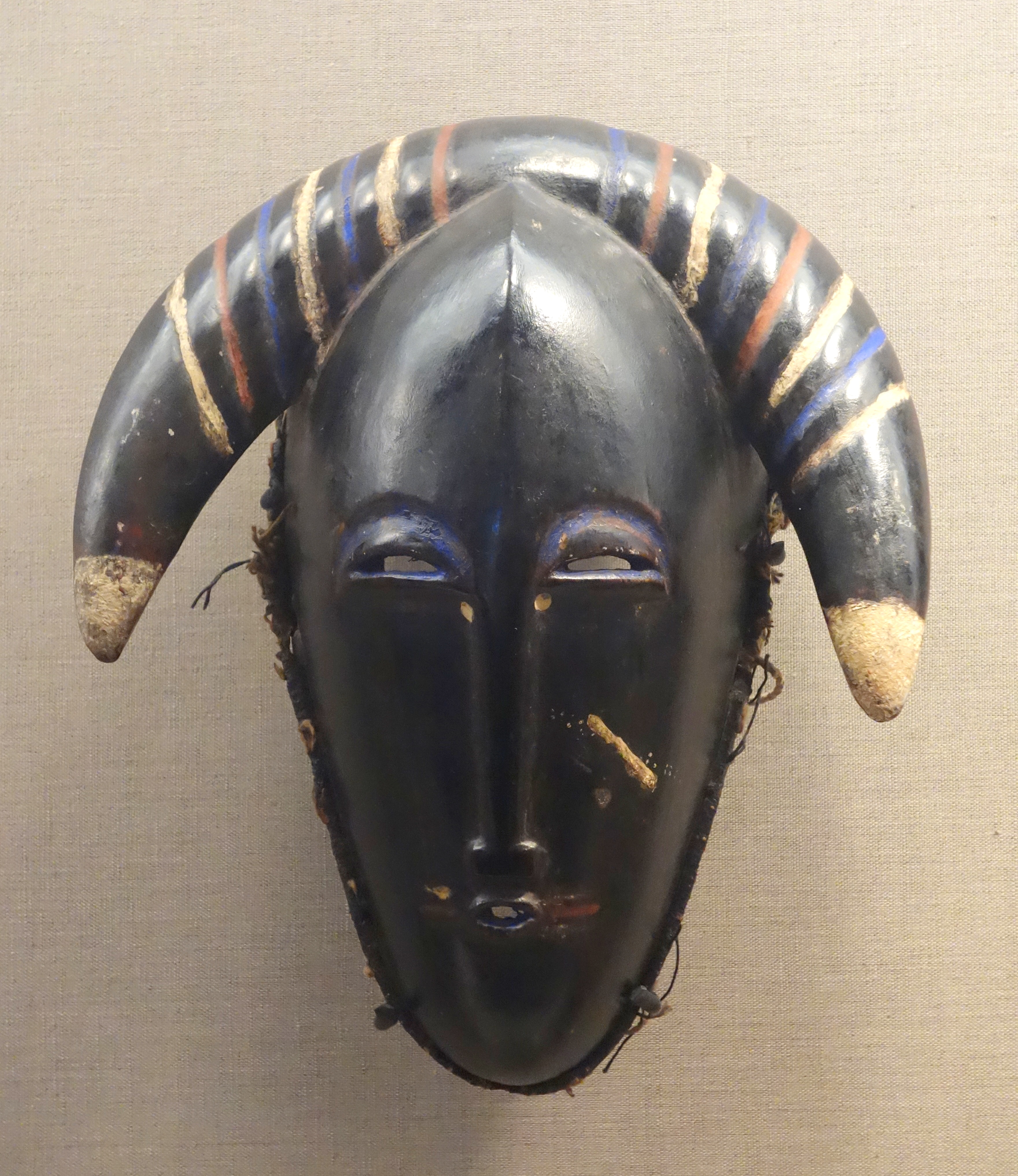 Exhibit in the De Young Museum, San Francisco, California, USA. This artwork is in the public domain because the artist died more than 70 years ago.